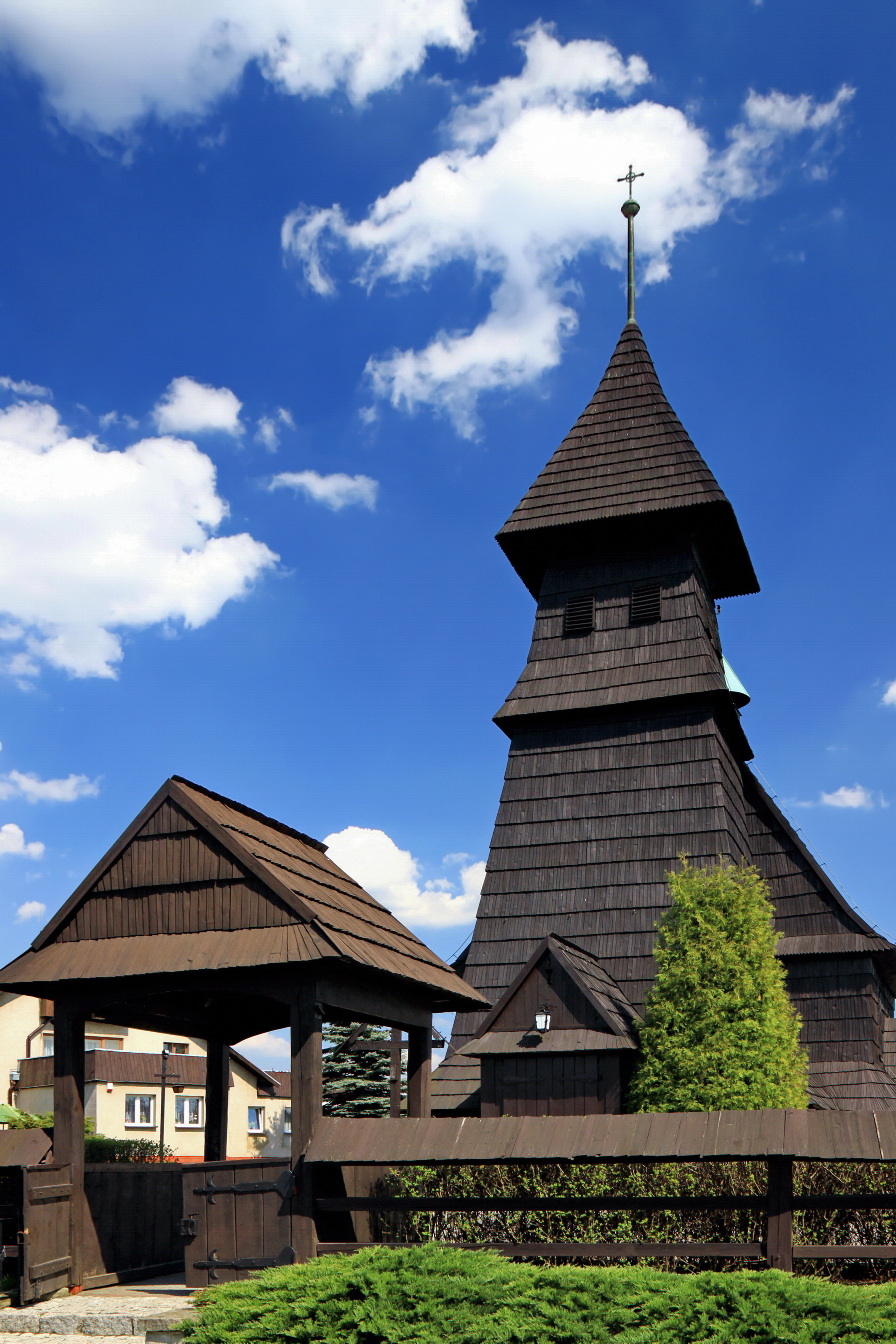 Palowice, Holy Trinity parish church, build in 1606, 1981